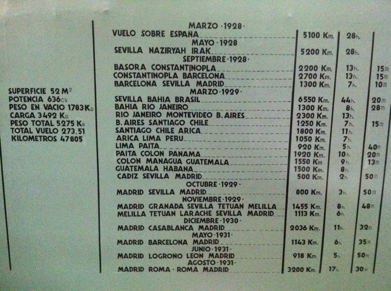 A spanish aircraft special version of french Breguet 19. In 1929, it went to Brasil from Spain, this aircraft was first to crossed ocean atlantic in this way.